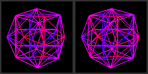 I created this image with a computer program that I wrote for the purpose. It is a stereoscopic 3D projection of an icositetrachoron with coloring ranging from red to blue to represent a point's position along the fourth axis. Manwiththemasterplan 15:37, 21 September 2006 (UTC) Dosiero:3D stereoscopic projection icositetrachoron.PNG